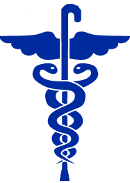 Graphical representation of the logo "Snakes on a cane" of TV series House M.D.